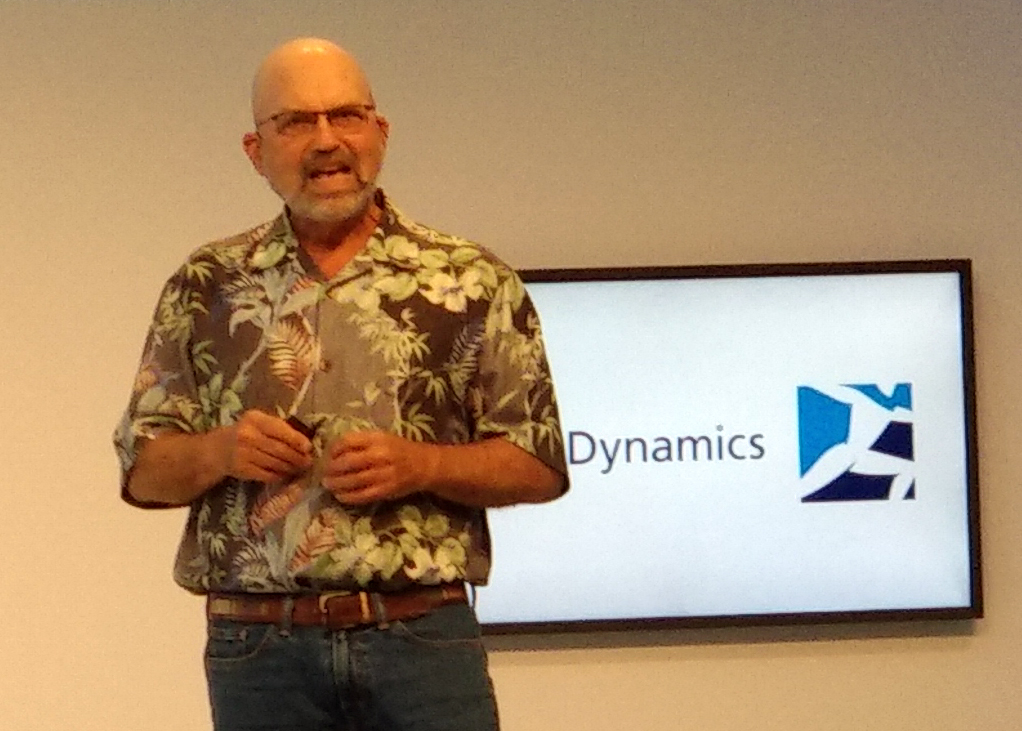 Boston Dynamics founder Marc Raibert (born December 22, 1949) at the CEBIT computer expo in Hannover, June 2018